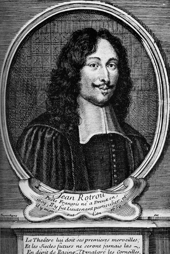 Portrait of Jean Rotrou (1609-1650)